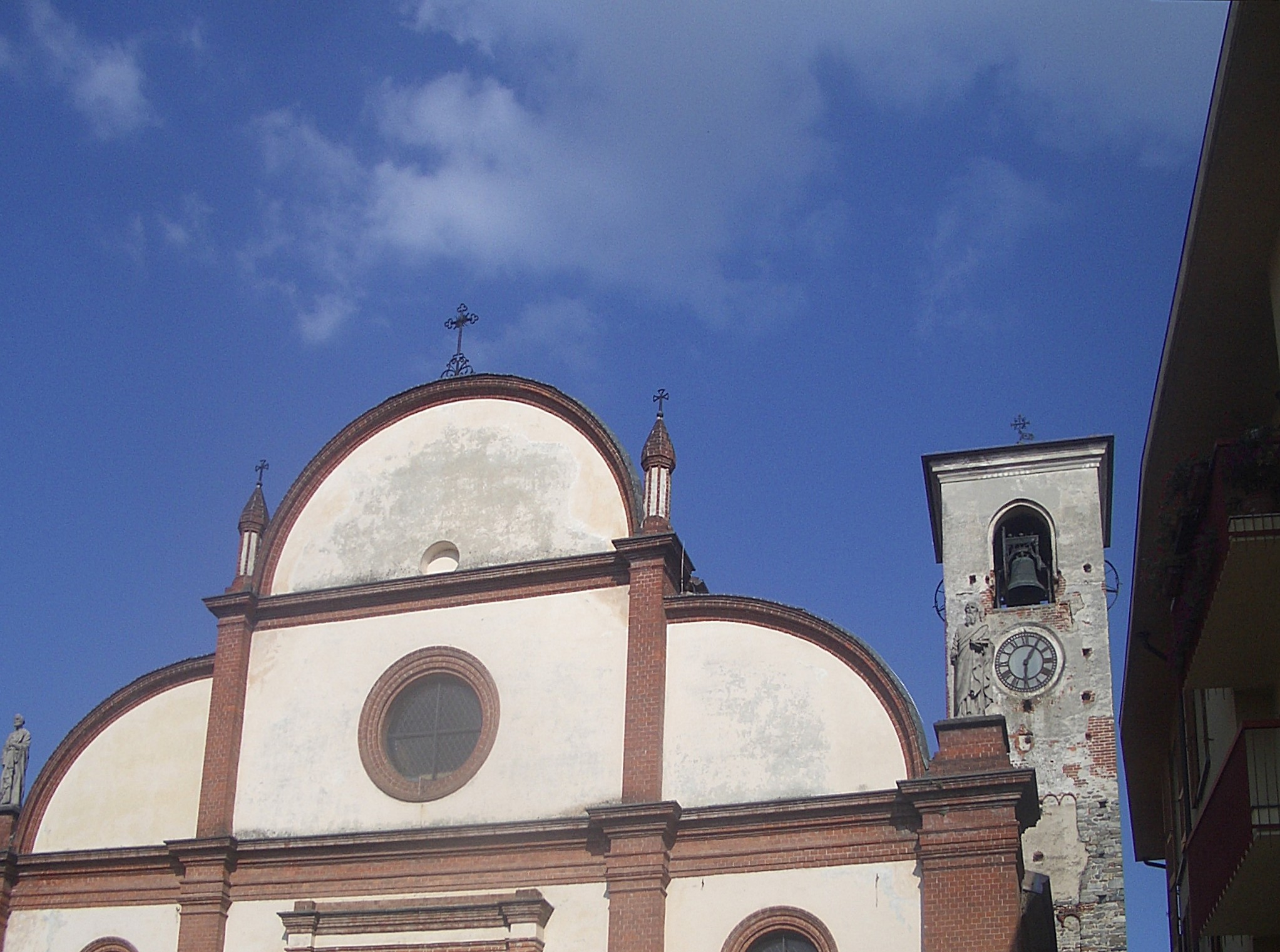 San Giorgio Canavese, parish church sedicated to Santa Maria Assunta